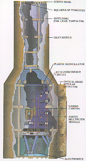 Soviet Granat spacecraft SIGMA instrument